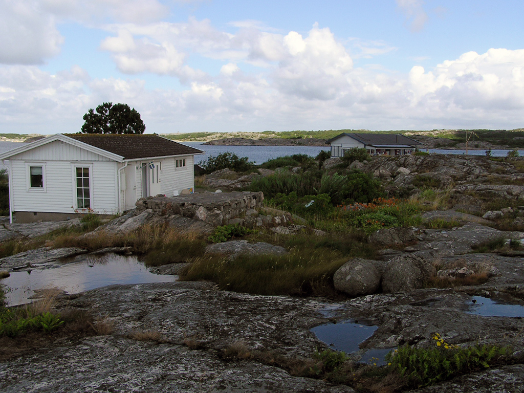 Cottages on Kårholmen, one of the islands in the southern archipelago of Göteborg, Sweden